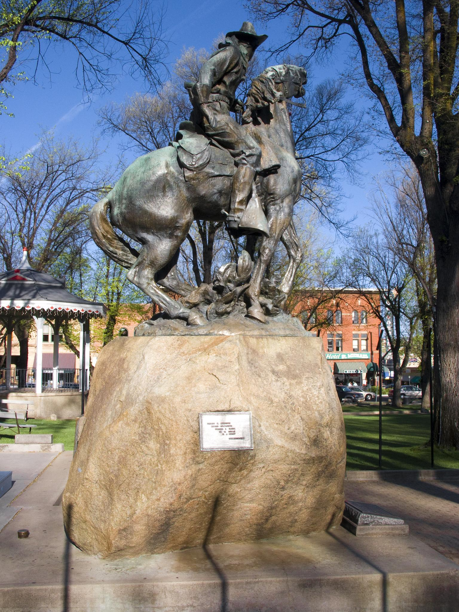 Captain William O. O'Neill Rough Rider monument. Located at Prescott, Arizona in courtyard of the Yavapai County courthouse.